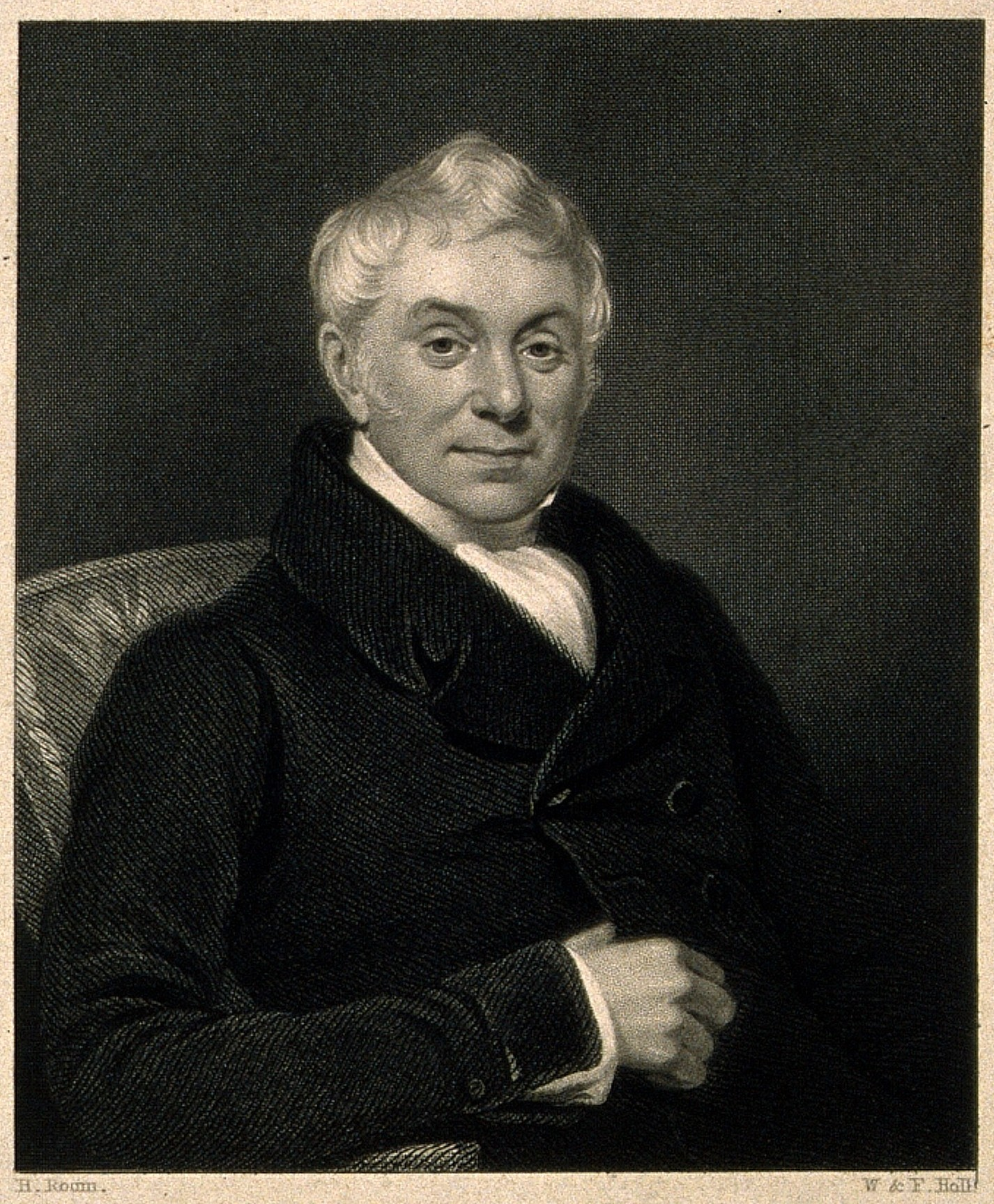 Thomas Copeland. Stipple engraving by W. & F. Holl after H. Room. Iconographic Collections Keywords: portrait prints; stipple prints; copeland, thomas, 1781-1855; Thomas Copeland